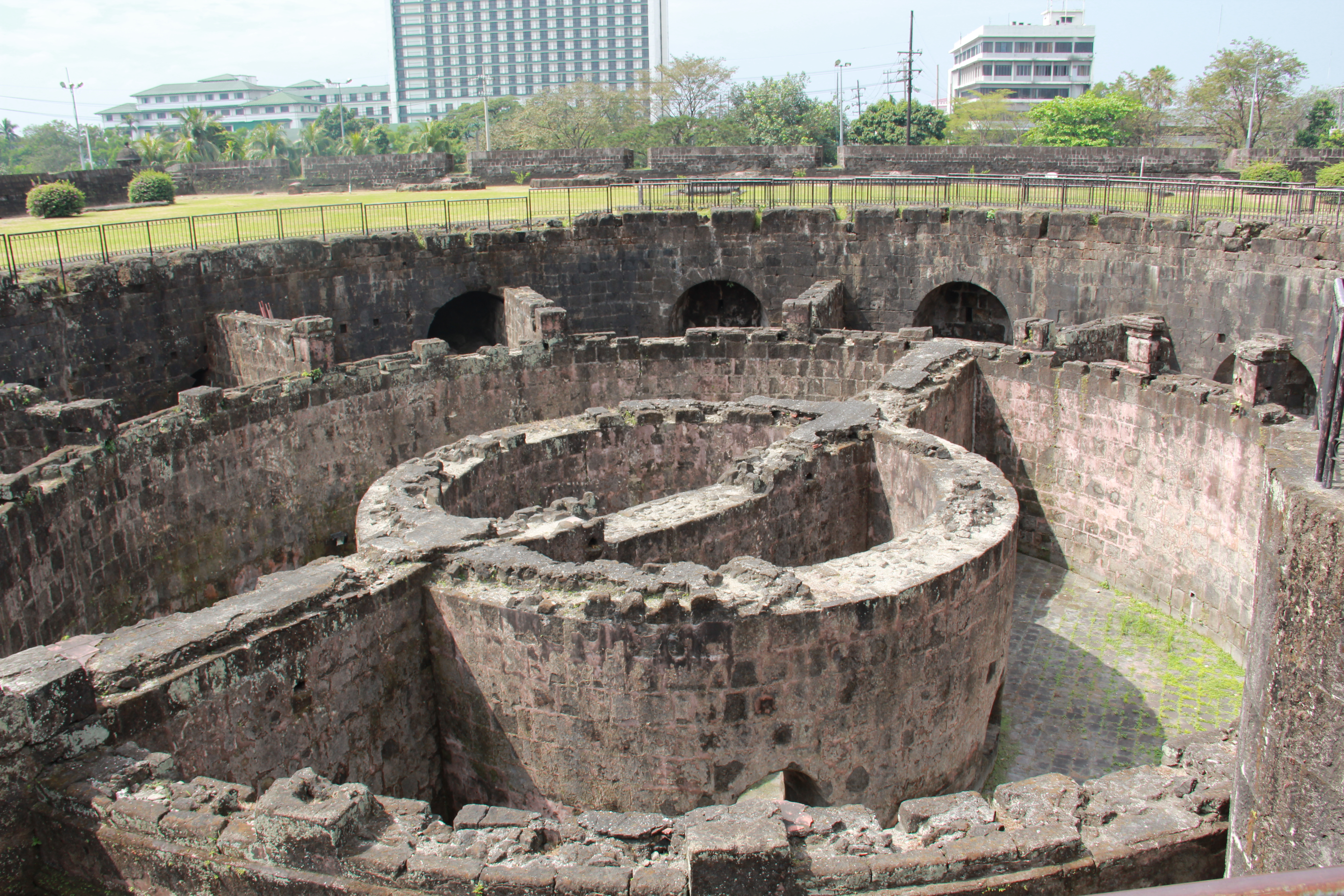 Located at Manila, Philippines. it is the city's oldest district and historic core, with its establishment beginning the city's history and habitation.